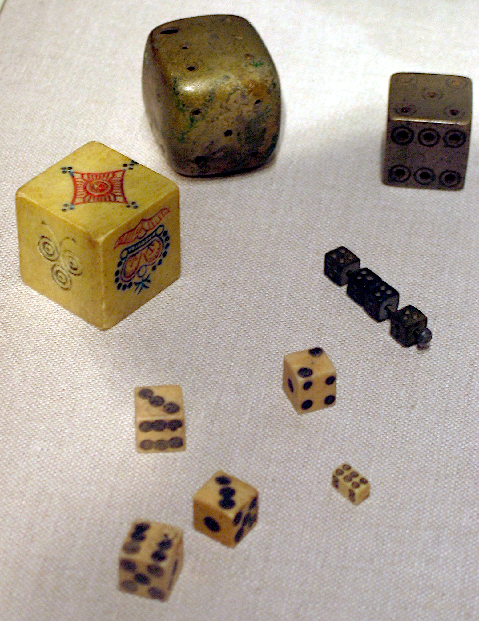 Historical dice from Asia. Taken by User:Isomorphic at the Sackler Gallery in Washington, D.C. during an exhibit on Asian games. Historischer Würfel aus Asien. Licensed under the GFDL and any Creative Commons license you like.